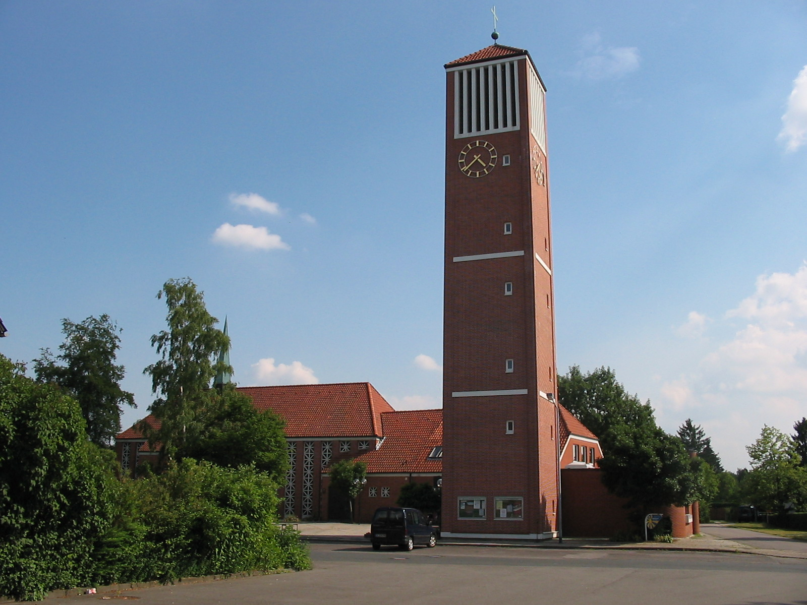 The church "Christuskirche Westercelle" was built 1962 and you can find it in a part of the city Celle/Germany named Westercelle.